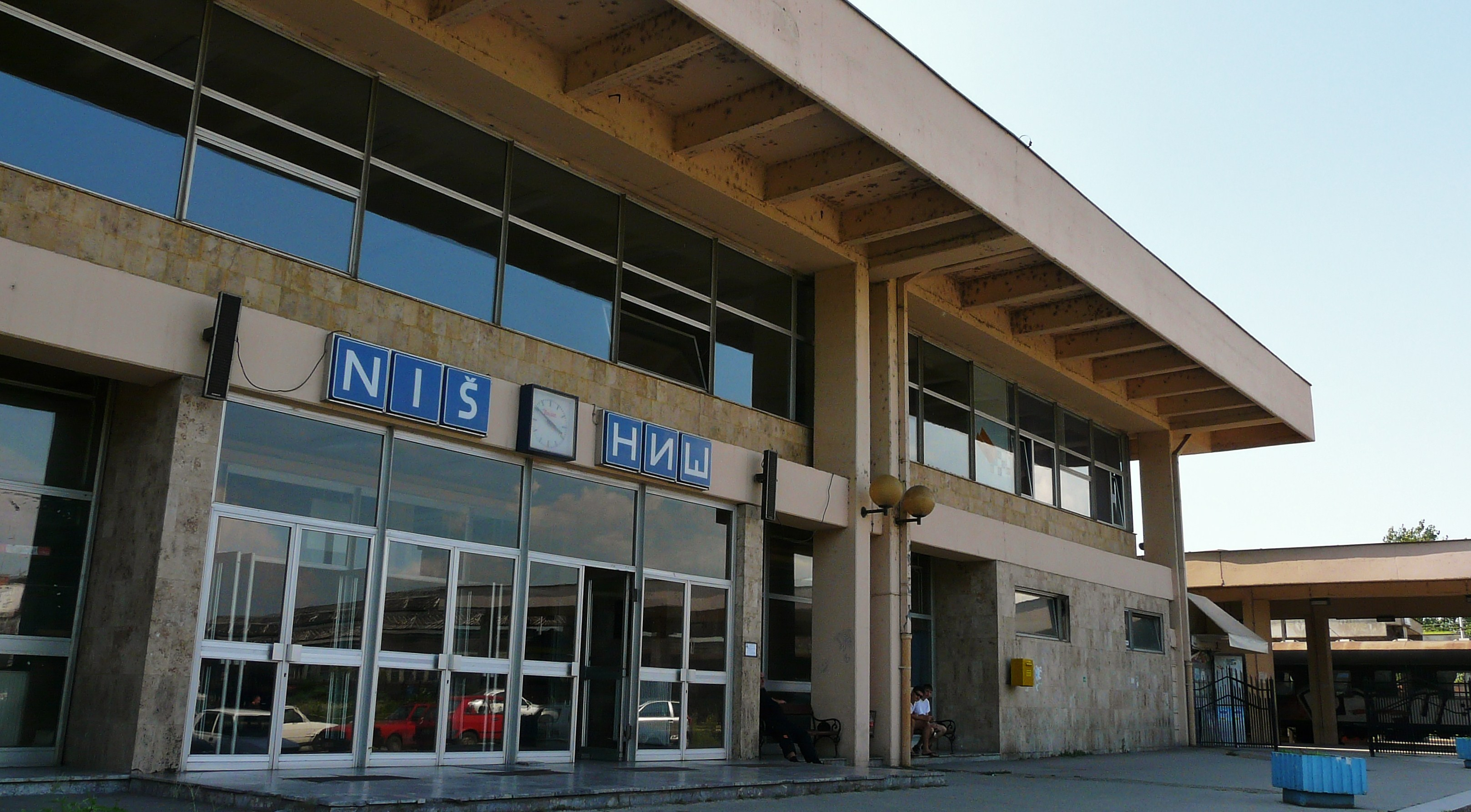 Outside the railway station of Niš in 2009 July.